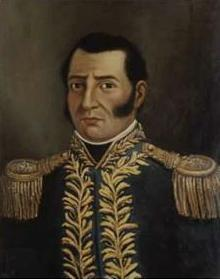 José Prudencio Padilla (1784-1828)